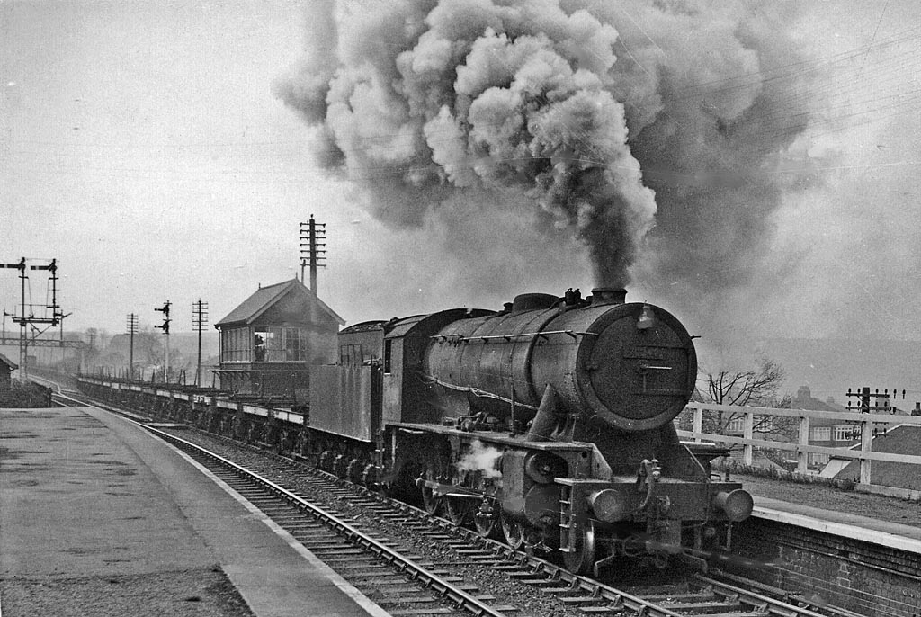 Train of empty flat wagons at Brotton Station. View southward, on ex-North Eastern Middlesbrough - Loftus and Whitby line, hauled by ex-War Department 2-8-0 No. 90240. (See NZ6819 : Brotton Station (remains) for further detail).